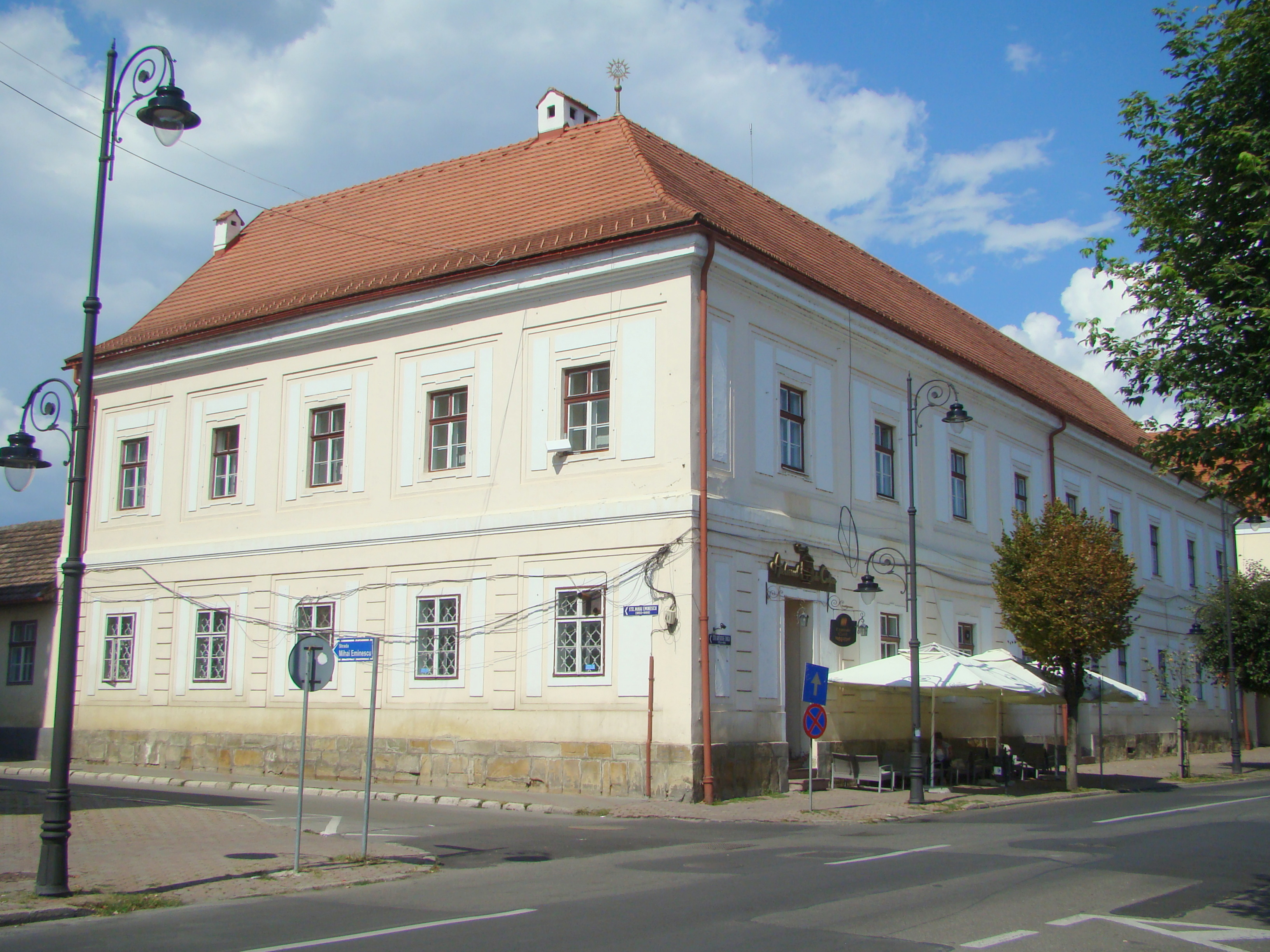 Roman Catholic church in Bistrița